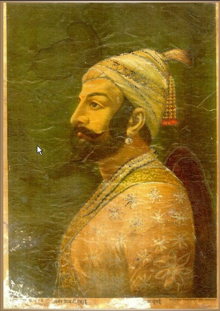 From Baroda Art Gallery